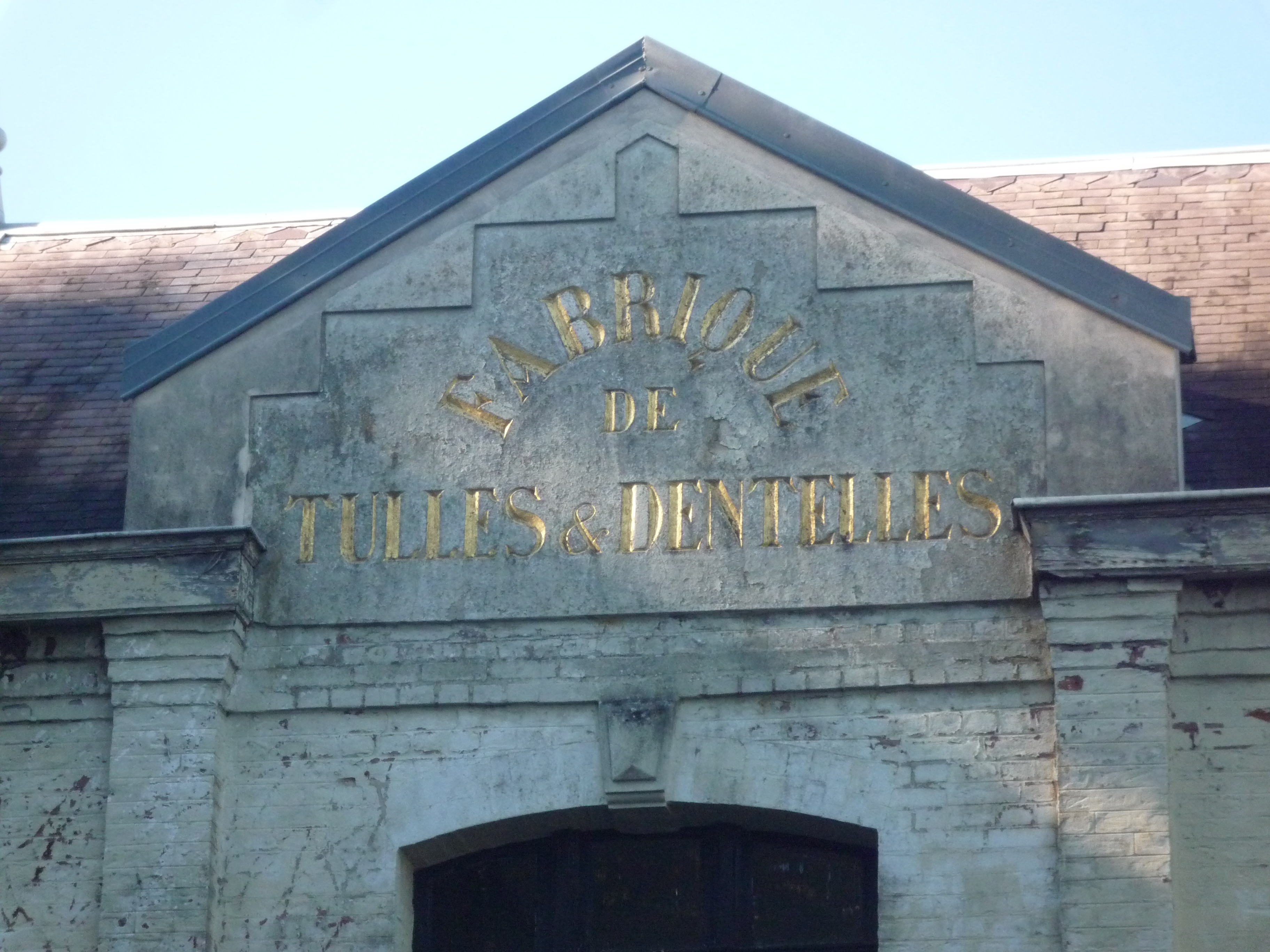 Caudry, Nord-Pas-de-Calais, France.